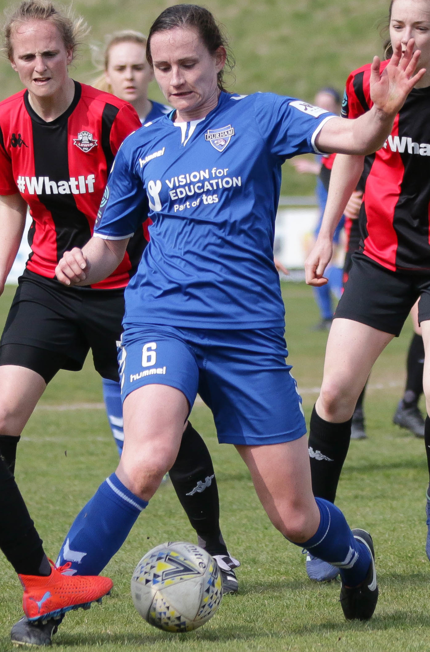 Northern Ireland footballer Sarah Robson of Durham WFC, surrounded by Lewes players